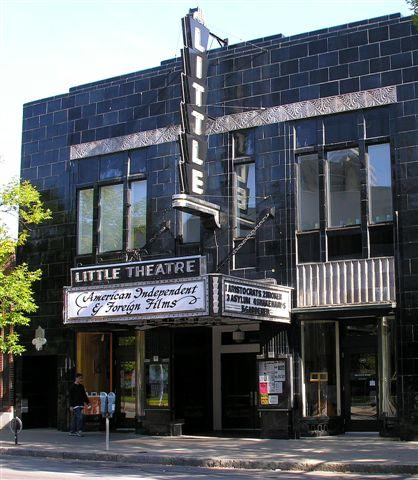 Little Theatre, East Avenue, Rochester, New York.